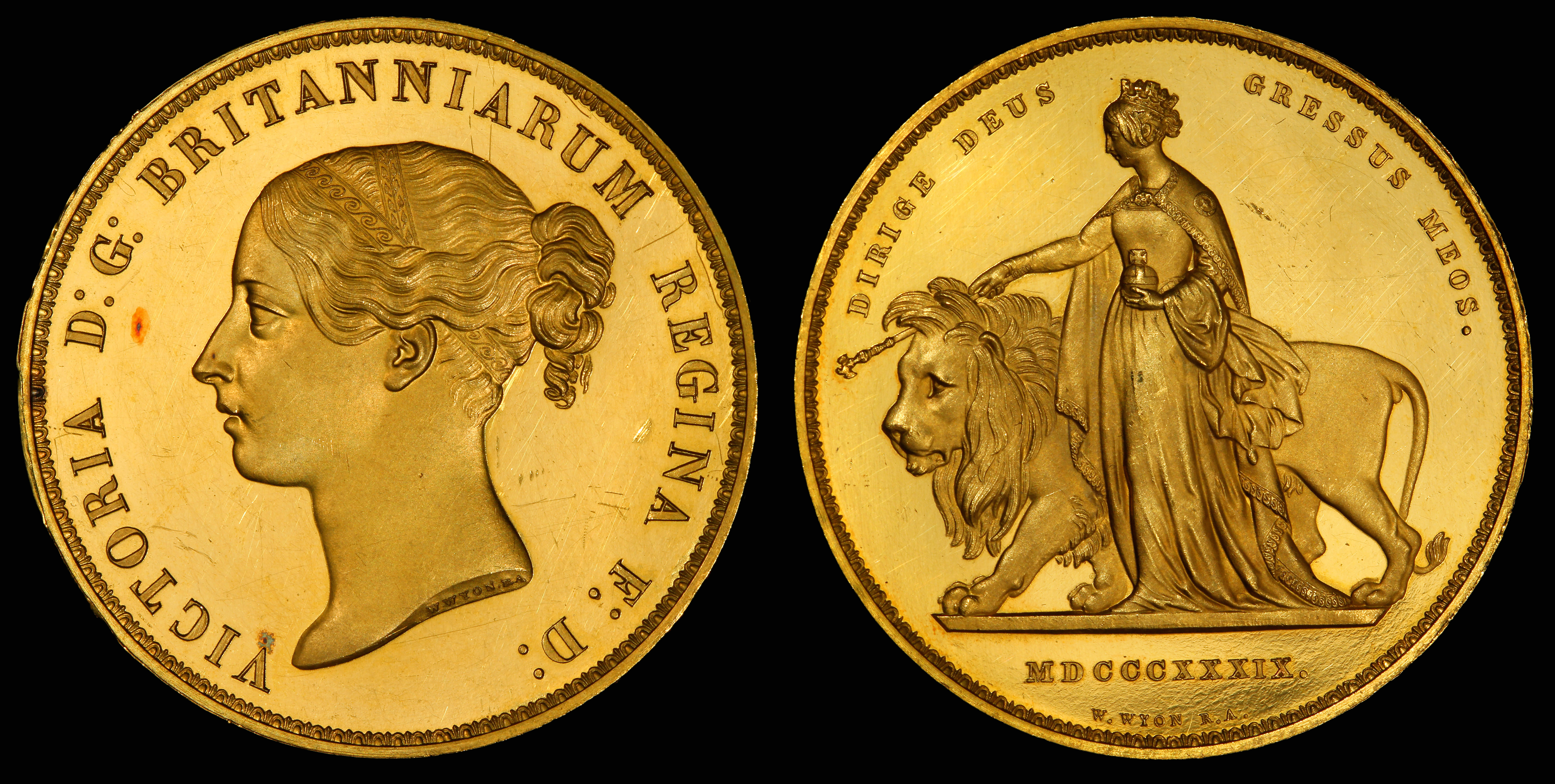 England (UK) 1839 5 Pounds (Una and the Lion)